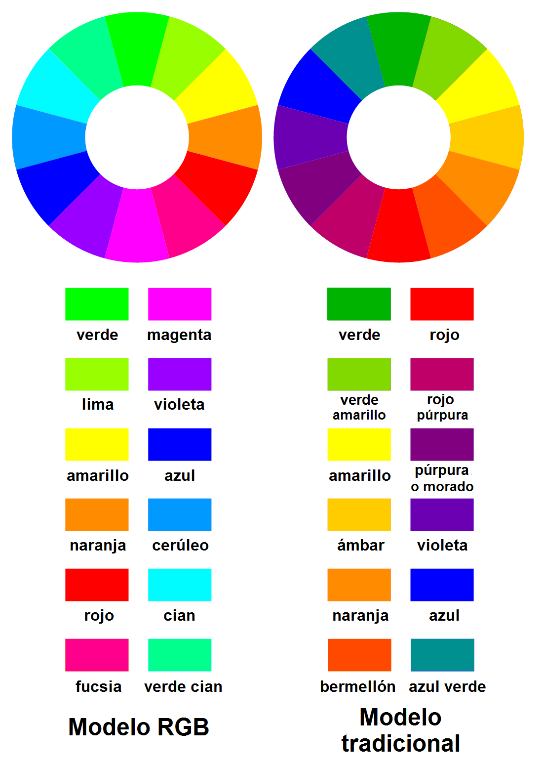 Complementary colors